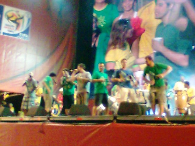 Monobloco members performing live at International FIFA Fan Fest Rio de Janeiro in June 28, 2010.